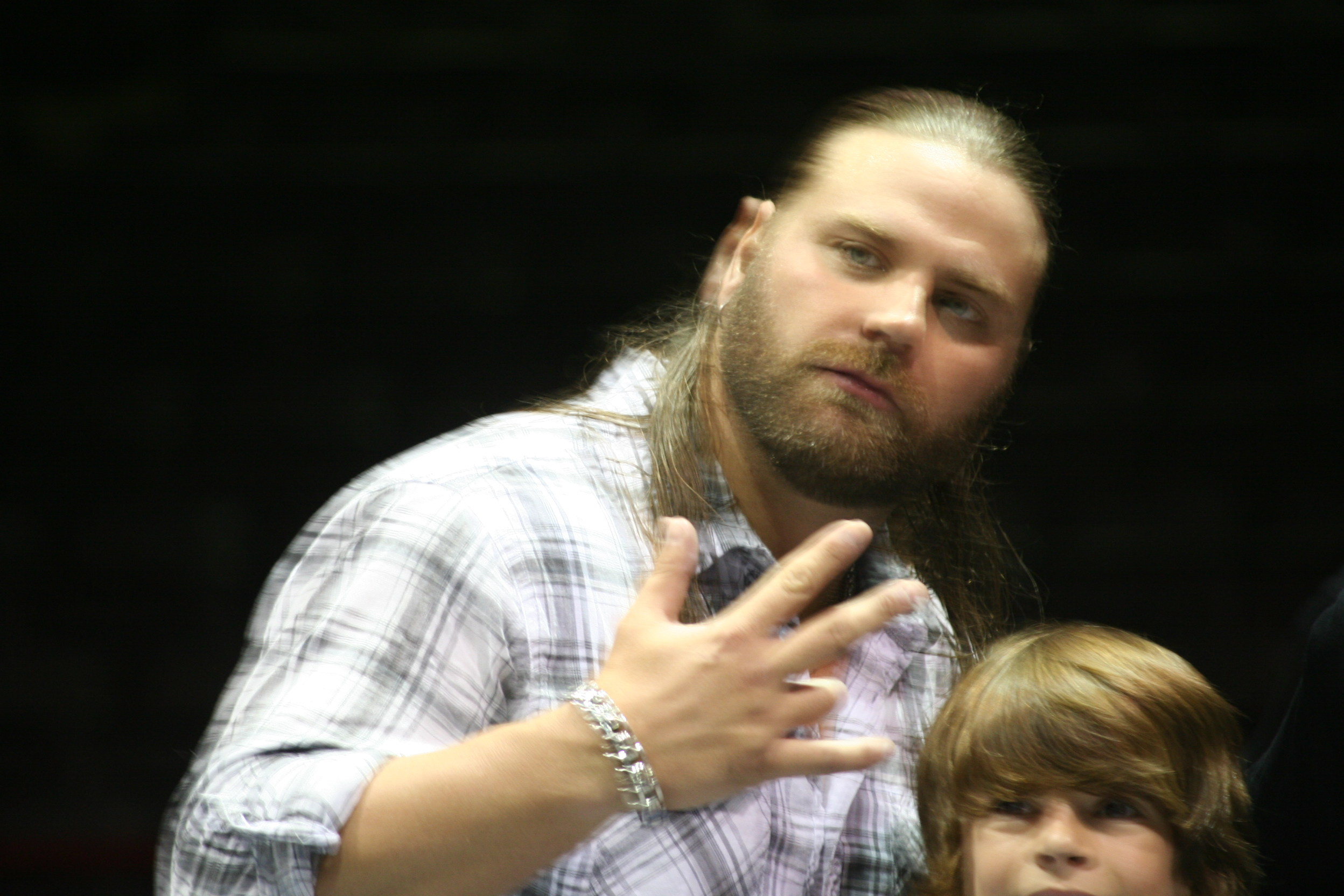 Professional wrestler James Storm at a TNA live event.